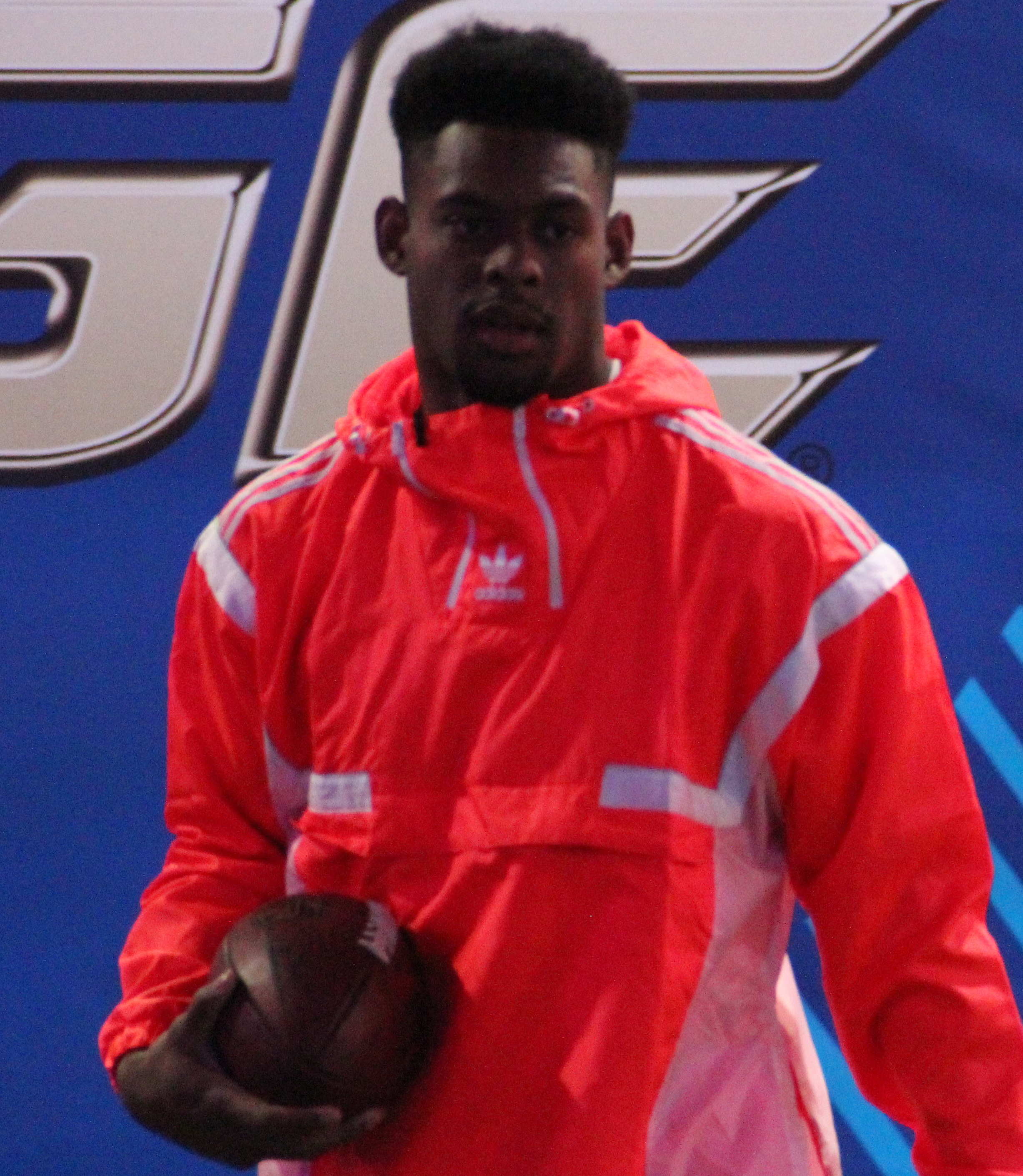 JuJu Smith-Schuster in 2019